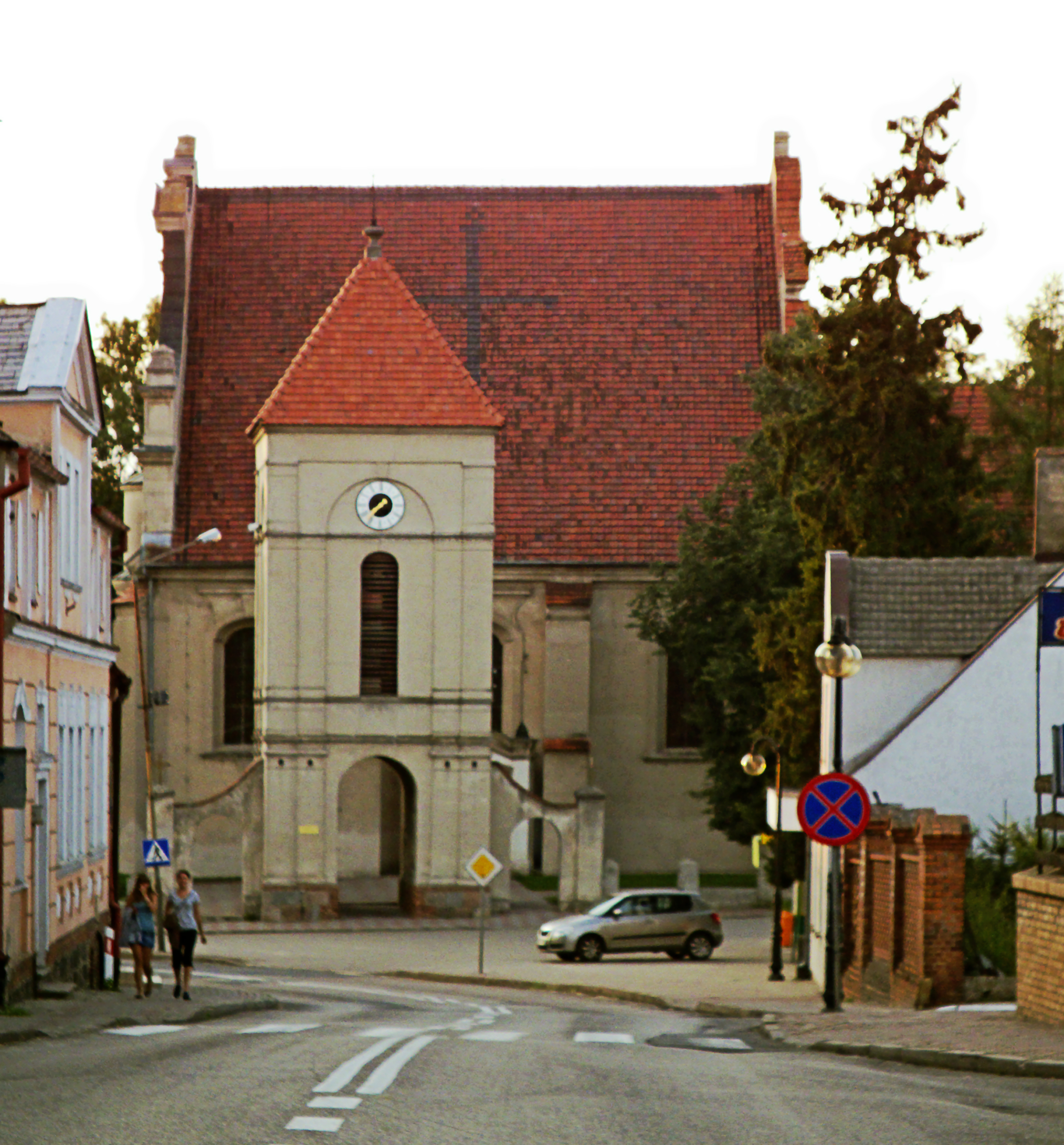 Margonin, parish church st. Adalbert's